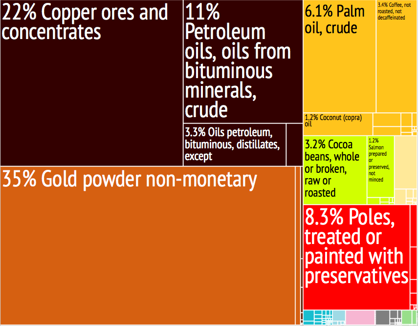 A proportional representation of Papua New Guinea's exports.